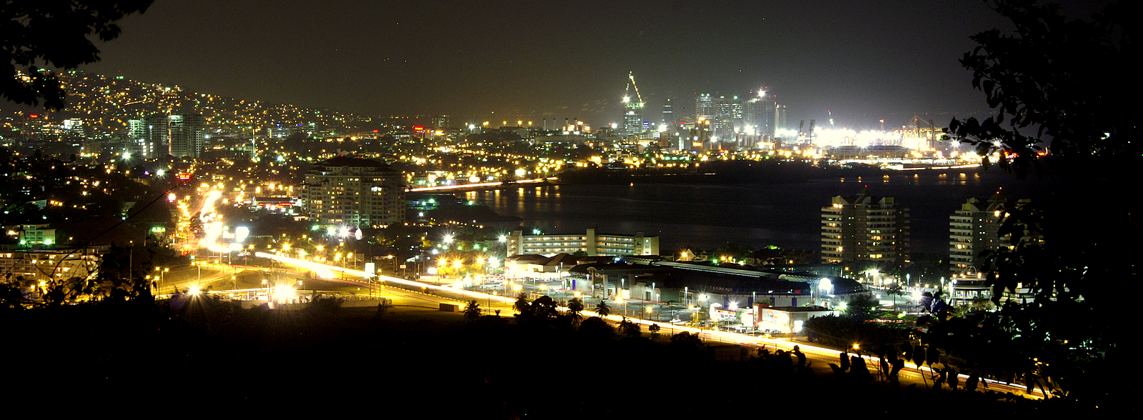 Port of Spain Skyline at Night